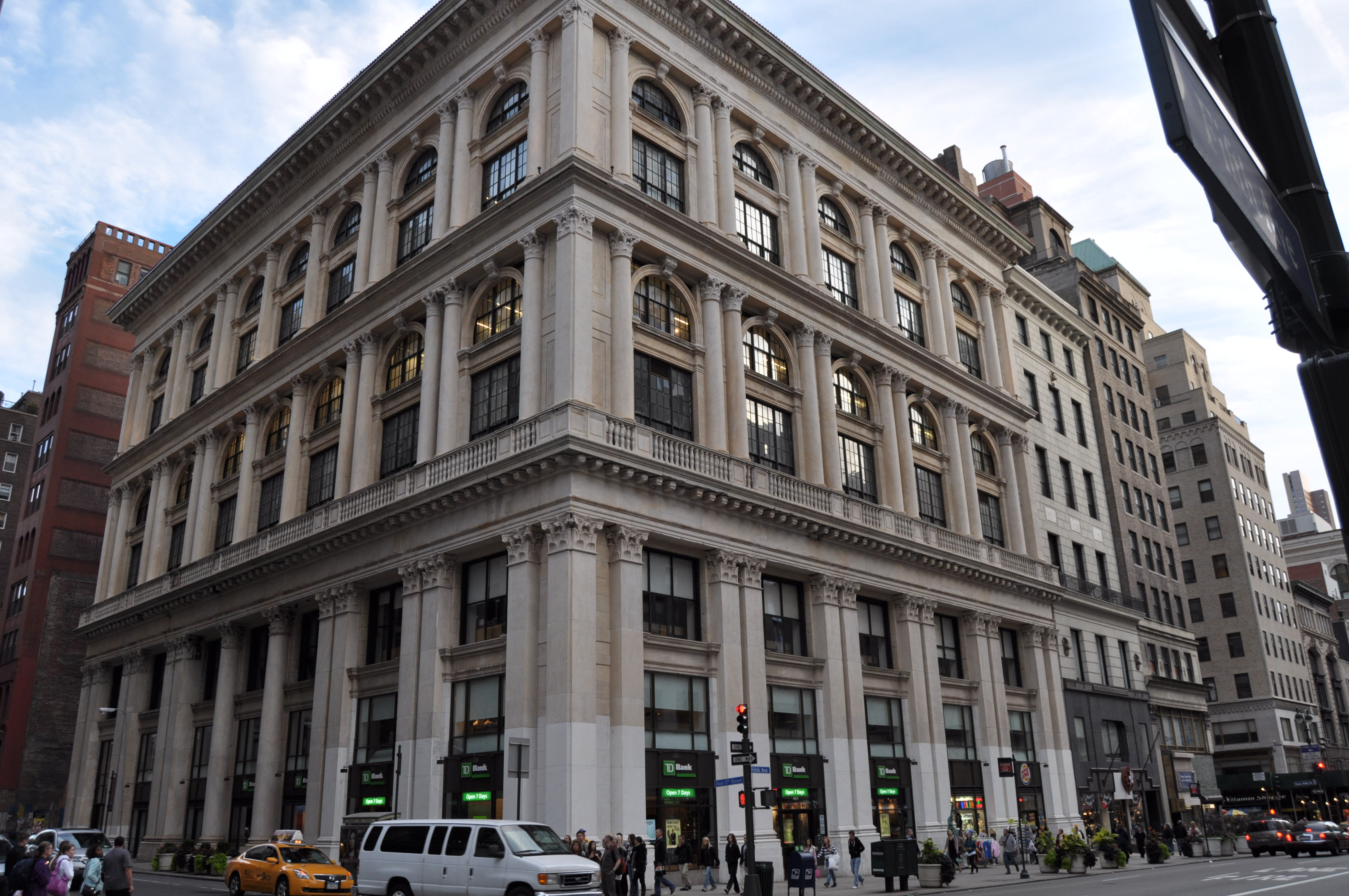 Tiffany and Company Building in New York City